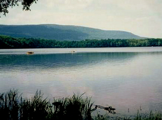 Camelback Mountain (Big Pocono) 2,131 ft. Photo by: Joe Calzarette